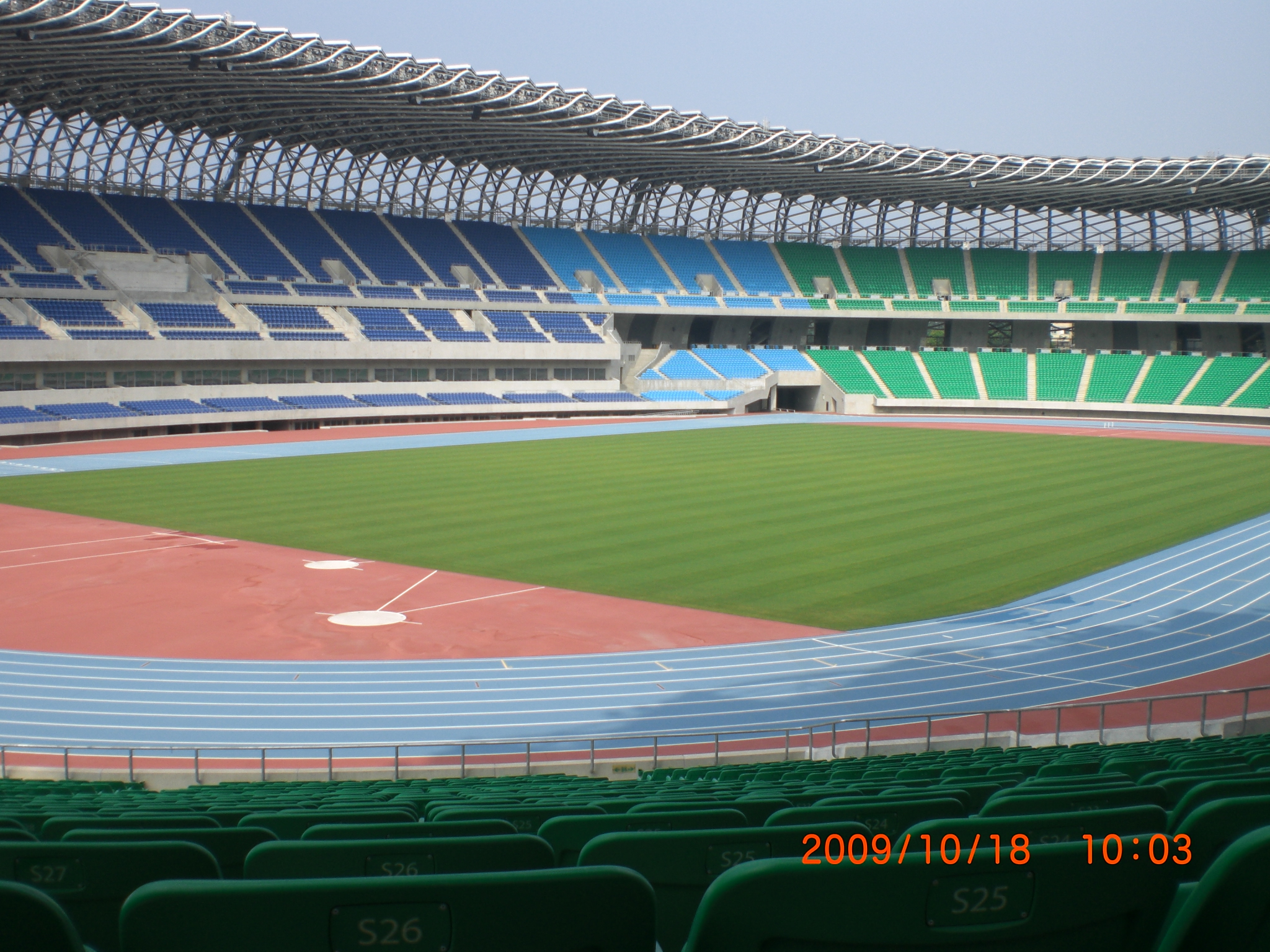 The Main Stadium for 2009 World Games panorama after 2009 World Games finished.